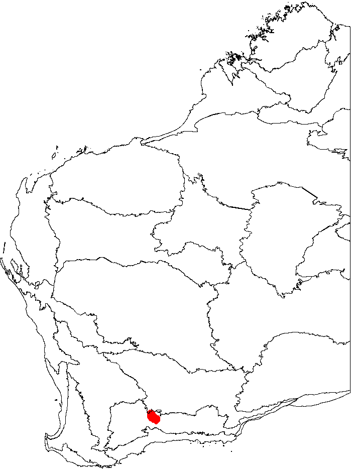 This is a map of Western Australia, showing the distribution of Banksia viscida (Sticky Dryandra) on a map of the IBRA 6.1 biogeographic regions.